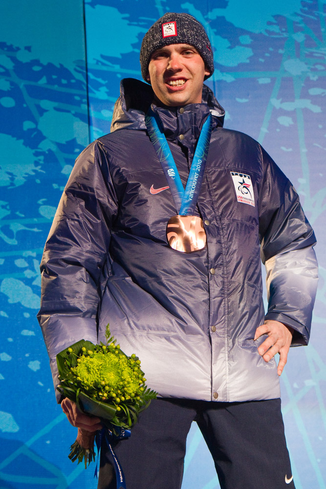 Andy Soule, wins bronze in biathlon at the 2010 Paralympics. Soule is an Army Veteran, and a double leg amputee. The first US medal in biathlon ever at the Paralympic or Olympic Games.